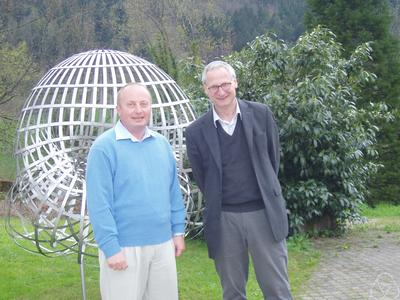 On the Photo: Grigorchuk, Rostislav Ivan (left), Karbe, Manfred (right) - Location: Oberwolfach - Source: Dr. Manfred Karbe, Freiburg (EMS-Publ. House) - Year: 2006 - Copyright: MFO - Photo ID: 12701